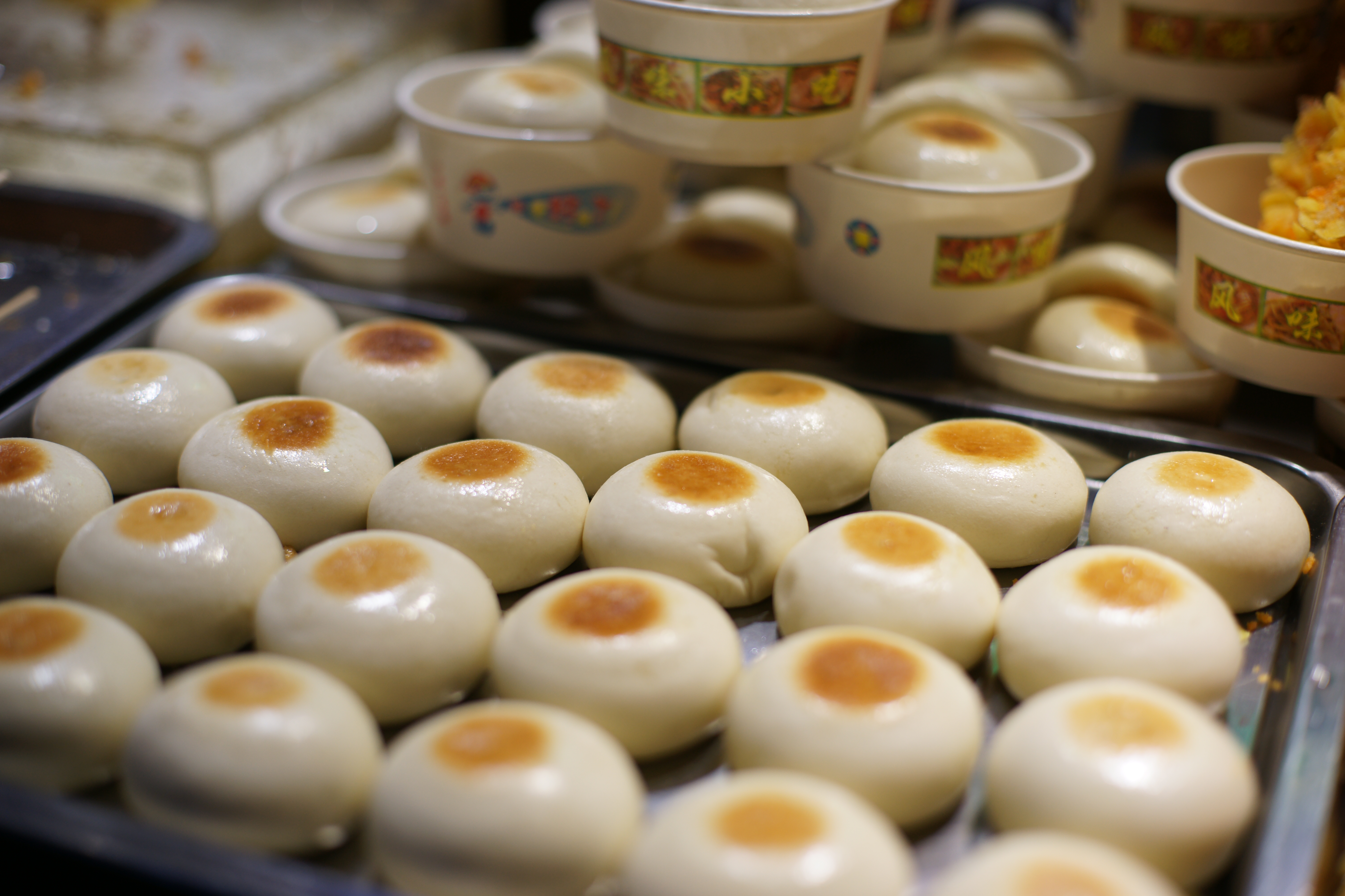 Brown sugar griddle bread in Chengdu, China.